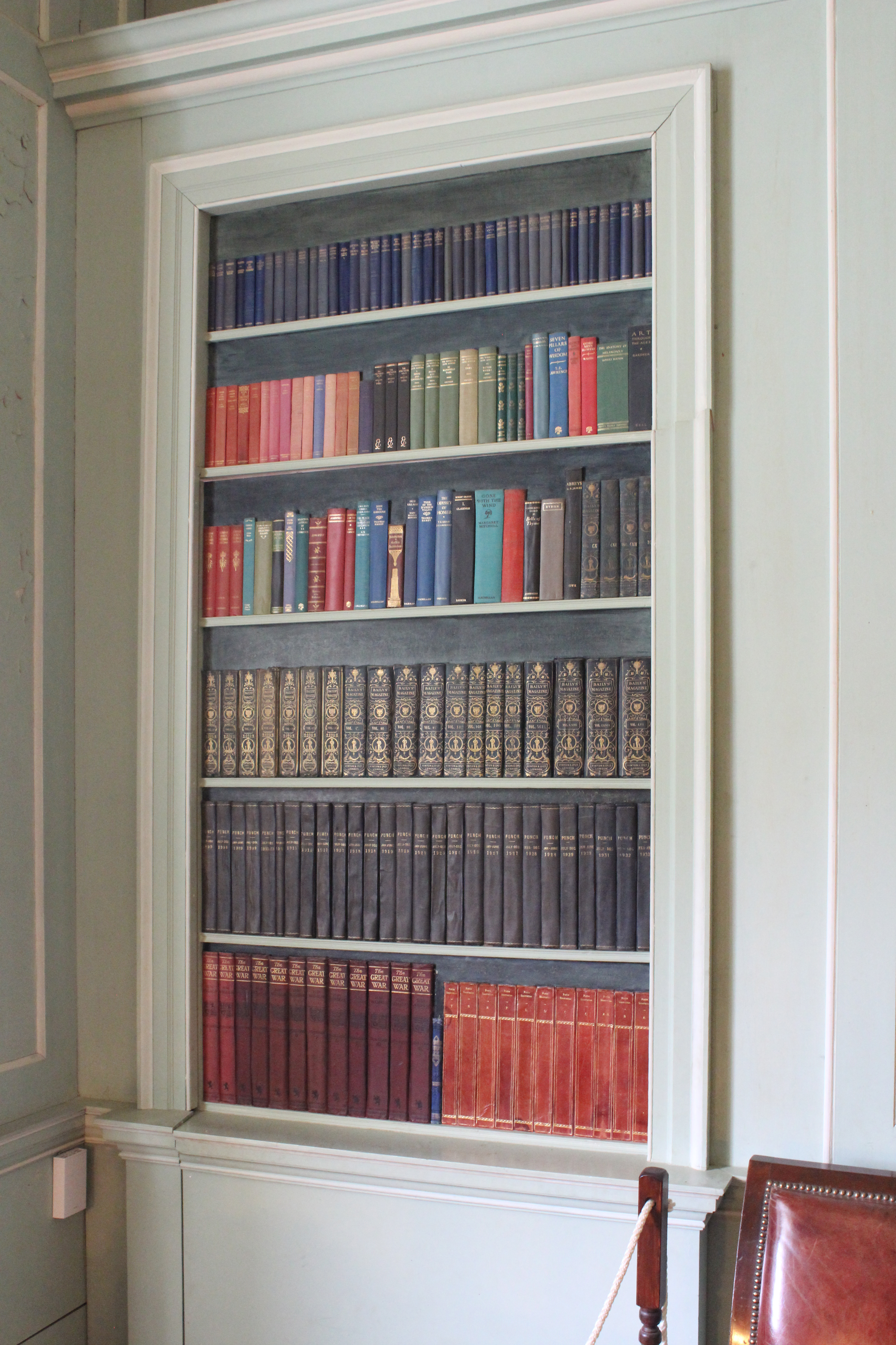 The "illusionary [or secret] door" at Mottisfont Abbey linking the study with the owner's dressing room. Note the break in the architrave (to the right of the second shelf from the top) and the false books in the bookshelves.